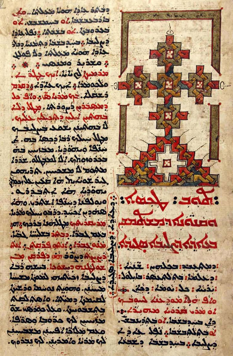 A 17th-century liturgical text written in Classical Syriac with Eastern (Madhnkhaya) vowel pointing. Part of the Vatican Library collection of Syriac Christian manuscripts digitized by the Brigham Young University Institute.